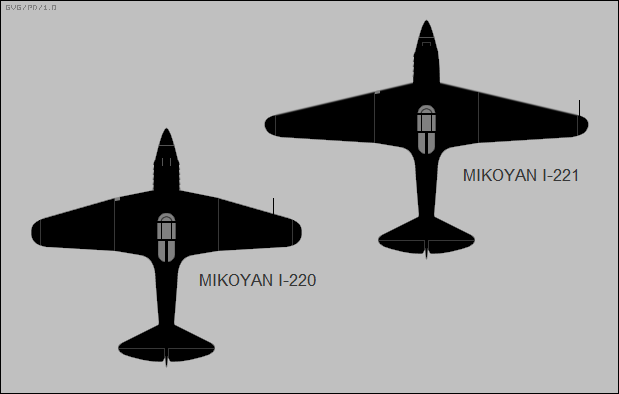 Mikoyan-Gurevich I-220 and I-221 silhouettes.